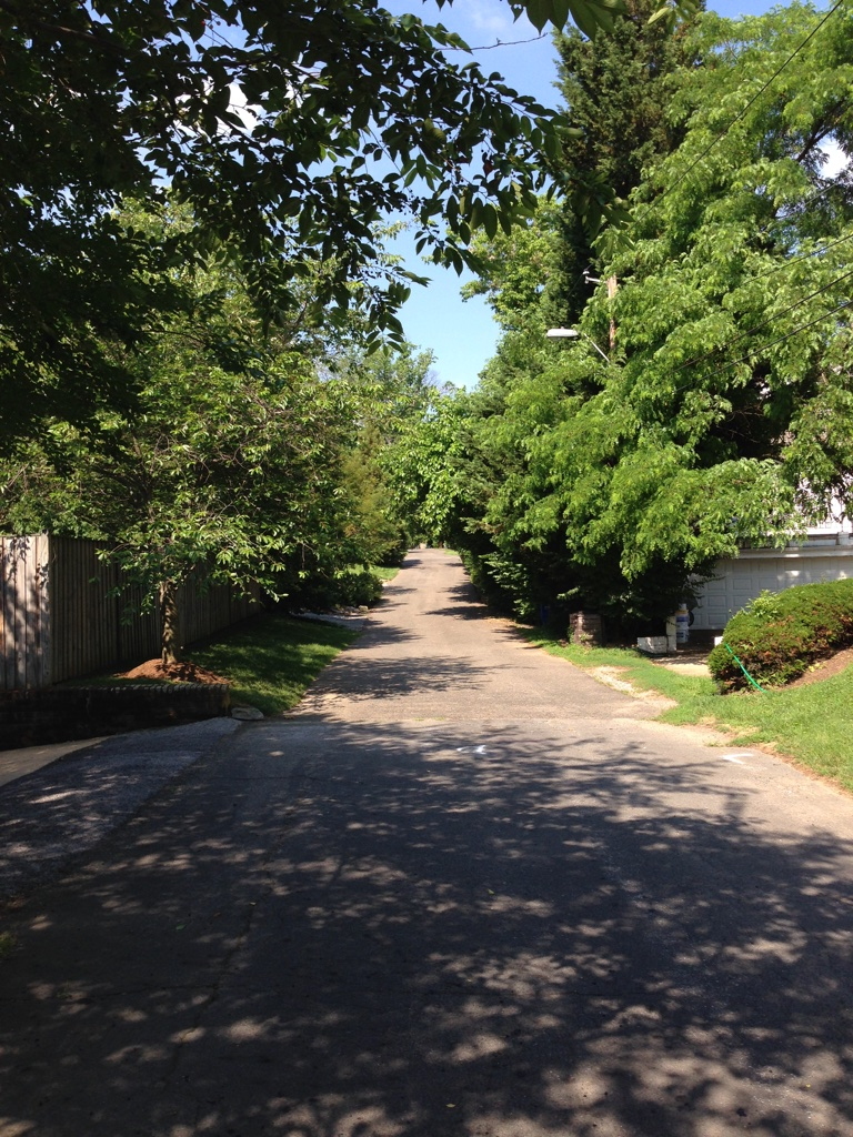 This is one segment of Grant Road, NW, Washington D.C., located one block from the original location of Fort Kearny. The road was originally constructed in 1862 by the 15th NJVI to connect the forts constructed for the defense of Washington, D.C.. Originally known as New Military Road, small sections such as this still exist as alleyways scattered along the route of the original construction.